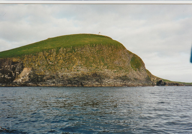 Coming up to toa Rona Coming up to toa Rona in early morning